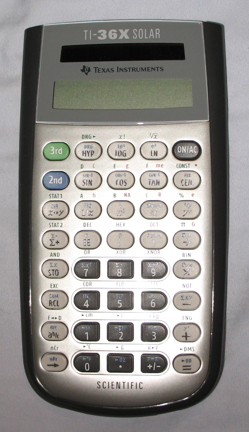 This is an image of the Texas Instruments TI-36X Solar Scientific Calculator, 2004 revision. I made this image myself, using my own specimin and using my own equipment. Please feel free to use it for whatever purposes you see fit. -SaidinUnleashed